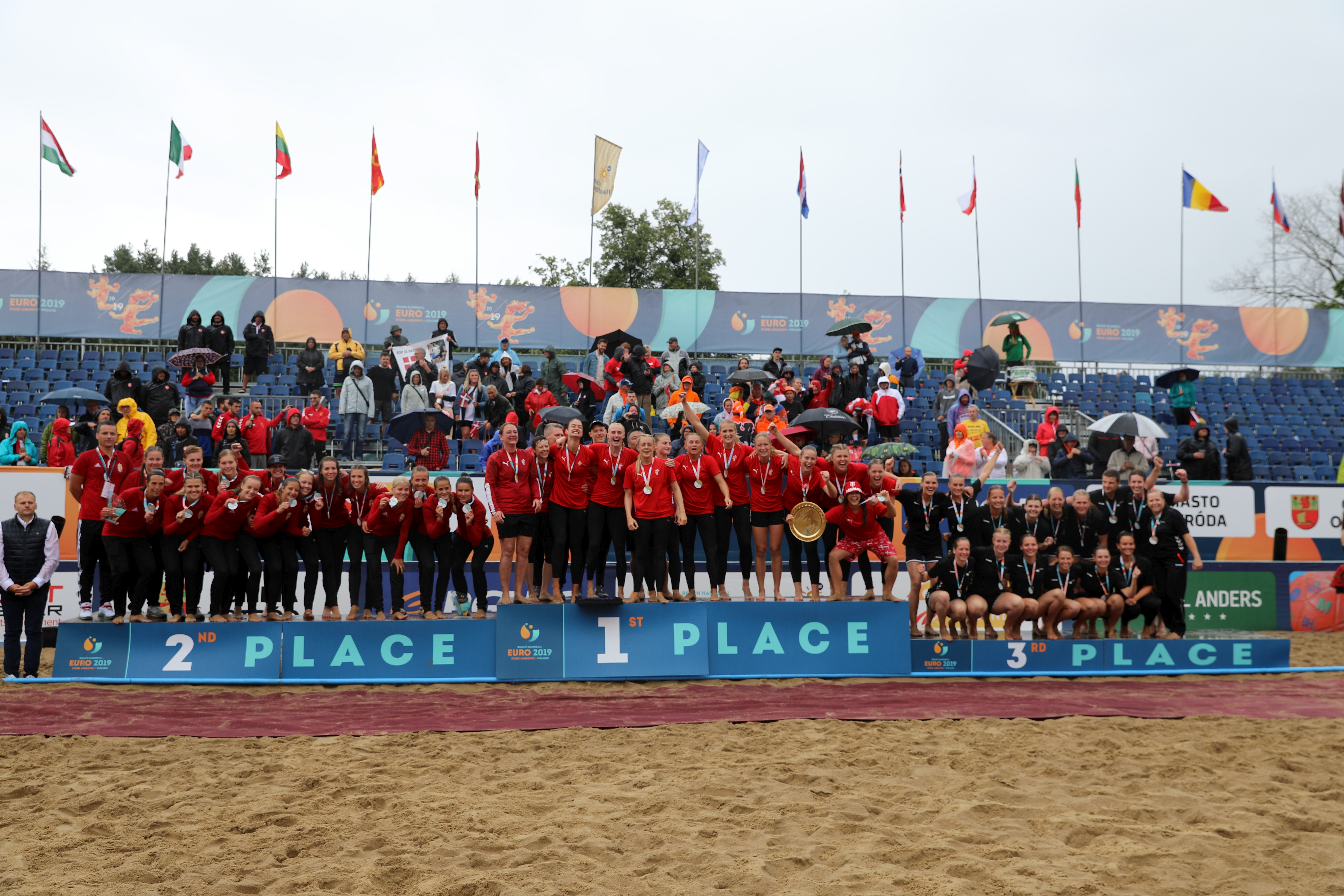 Beach handball Euro; Day 6: 7 July 2019 – Medal ceremony